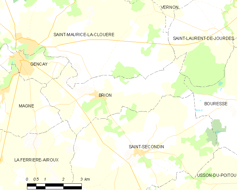 Map of French municipality Brion